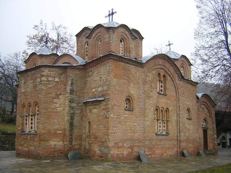 St. Pantelejmon Monastery